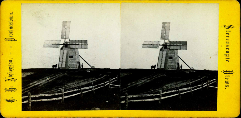 Provincetown windmill, circa 1880 ? Stereoscopic views of Provincetown, Massachusetts / by G.H. Nickerson and Nickerson & Smith.